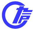 Kunohe Iwate chapter